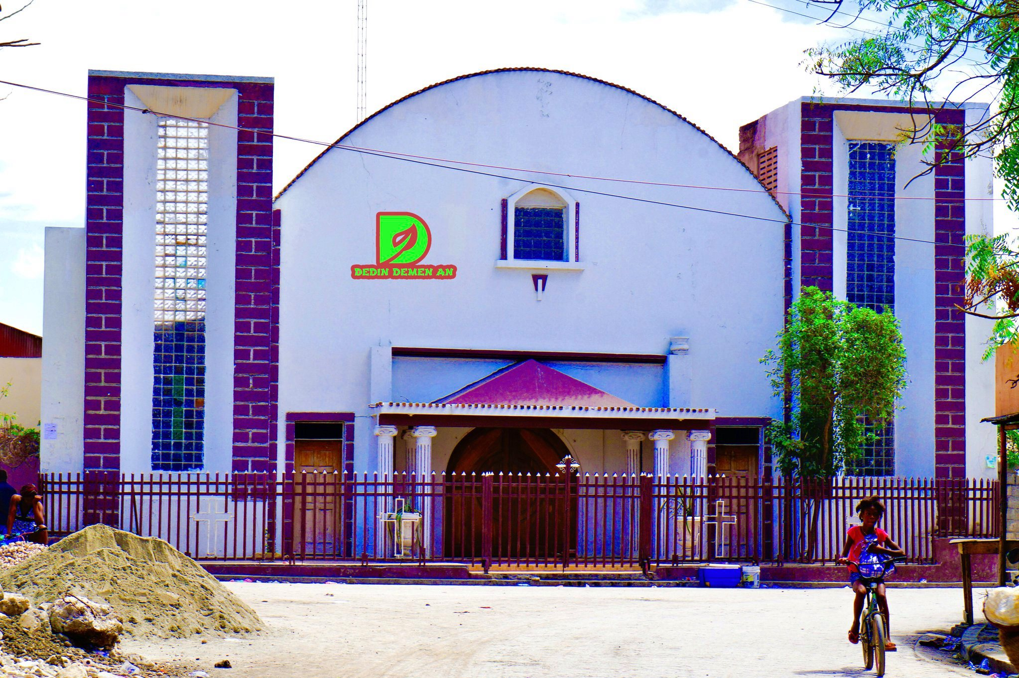 Creole